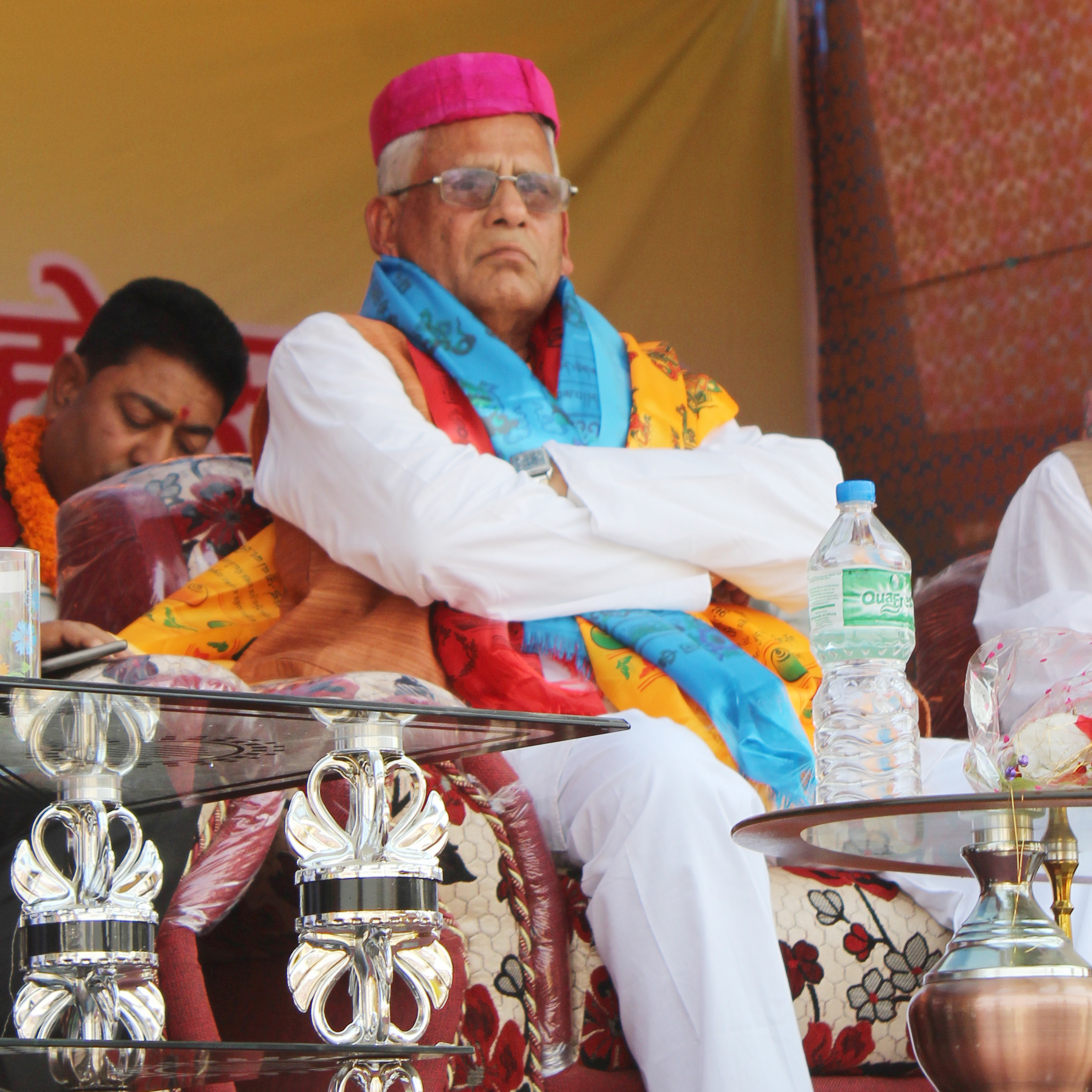 Ratneshwar Lal Kayastha is the 1st governor of Province No.2, Nepal.